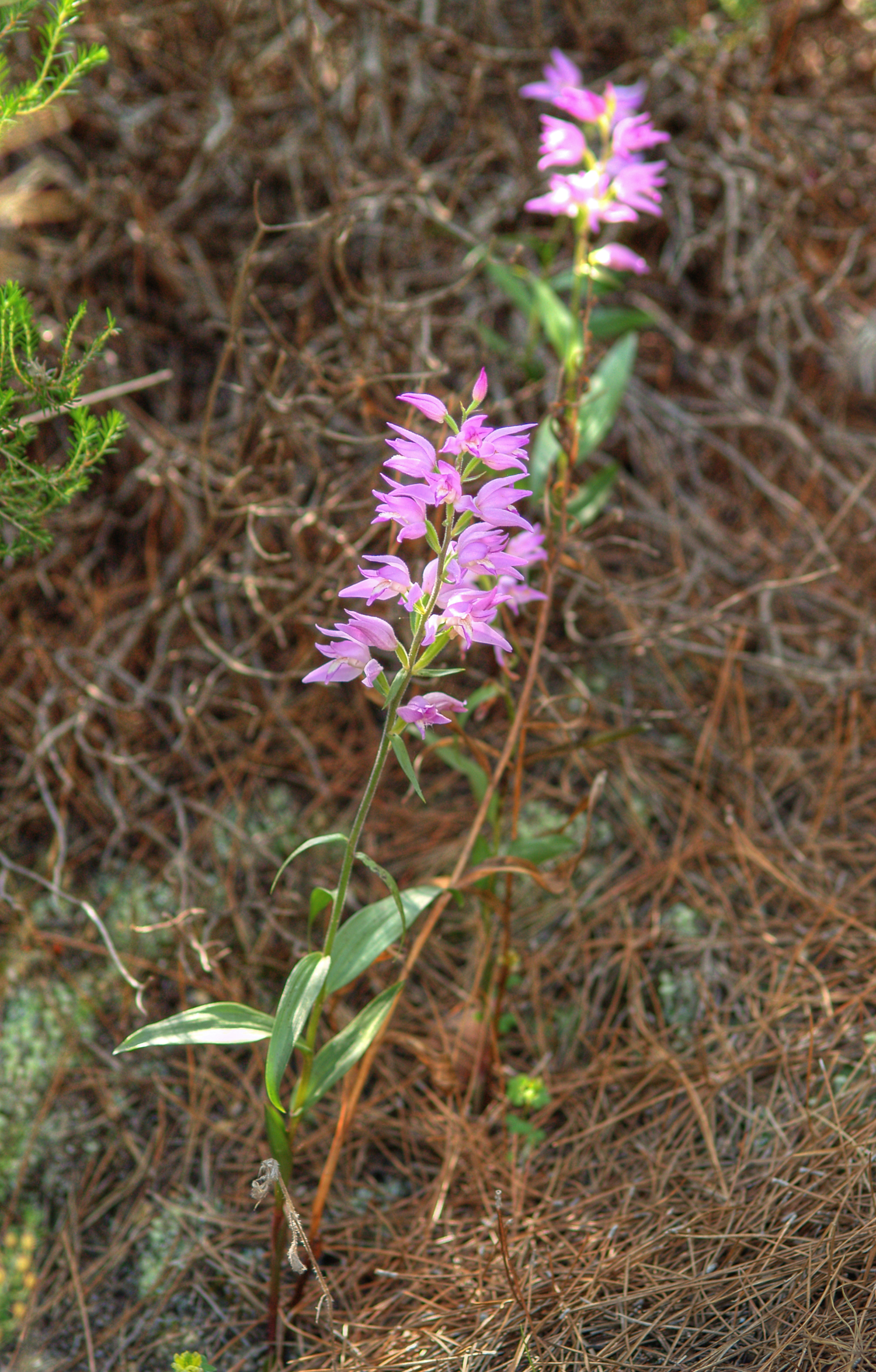 Red Helleborine (Cephalanthera rubra), Thasos, Greece